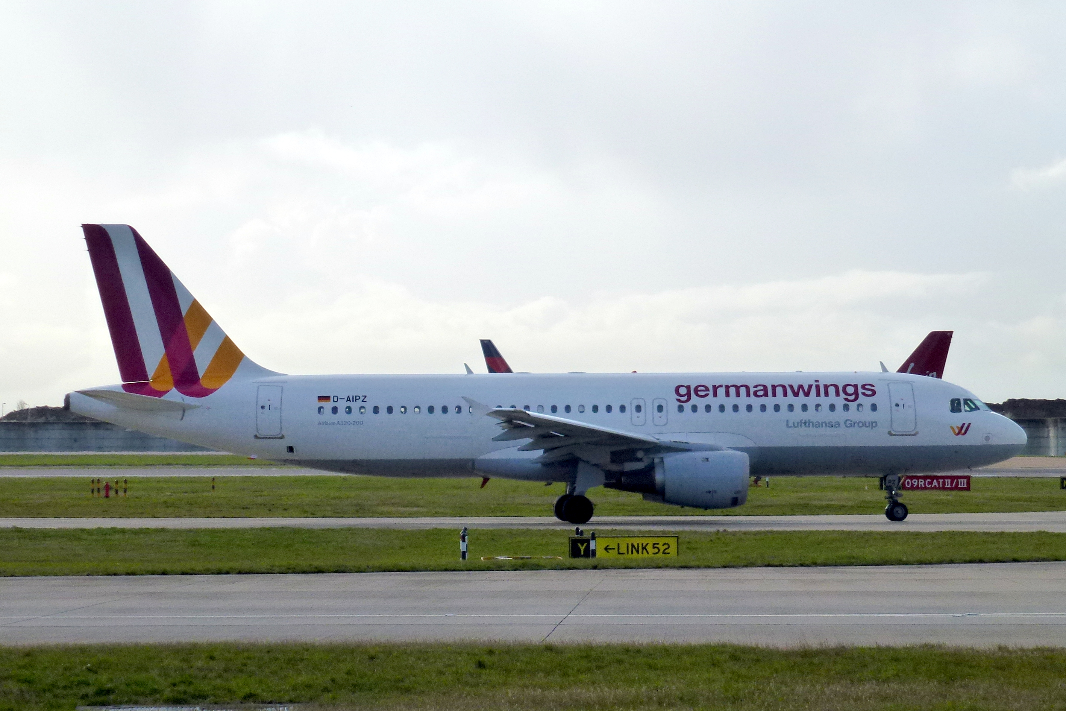 D-AIPZ Airbus A320 Germanwings heading for an 09R departure ex Lufthansa.